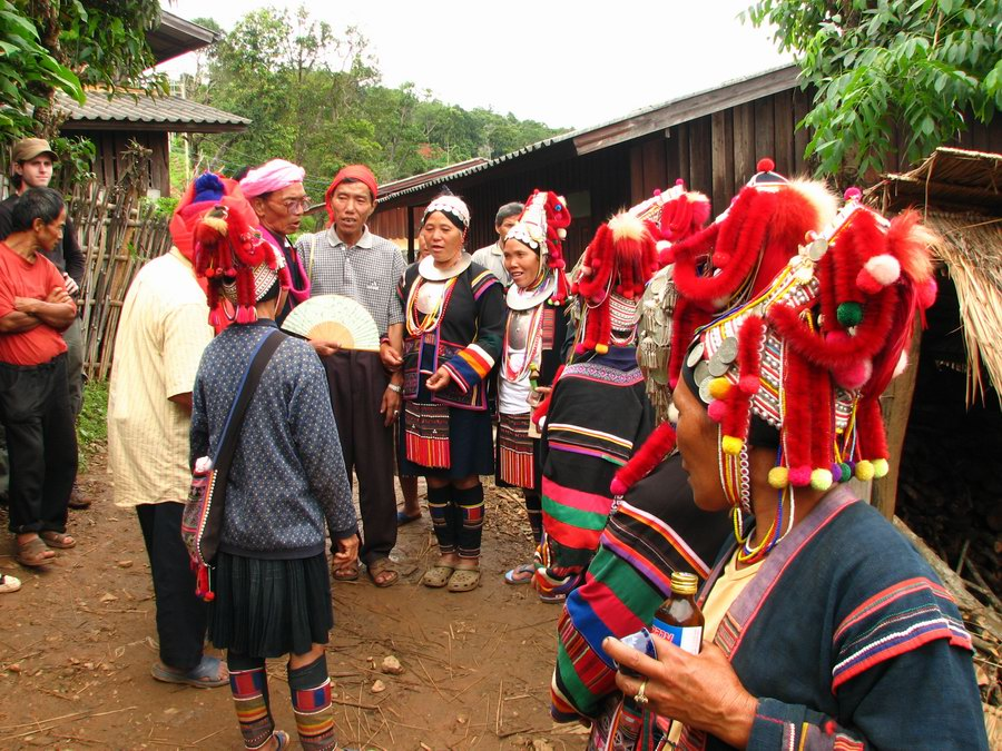 Akha people chanting at a funeral ceremony. On the left hand side are the village elder giving the note. The women are dressed up in their traditional Akha-costume.